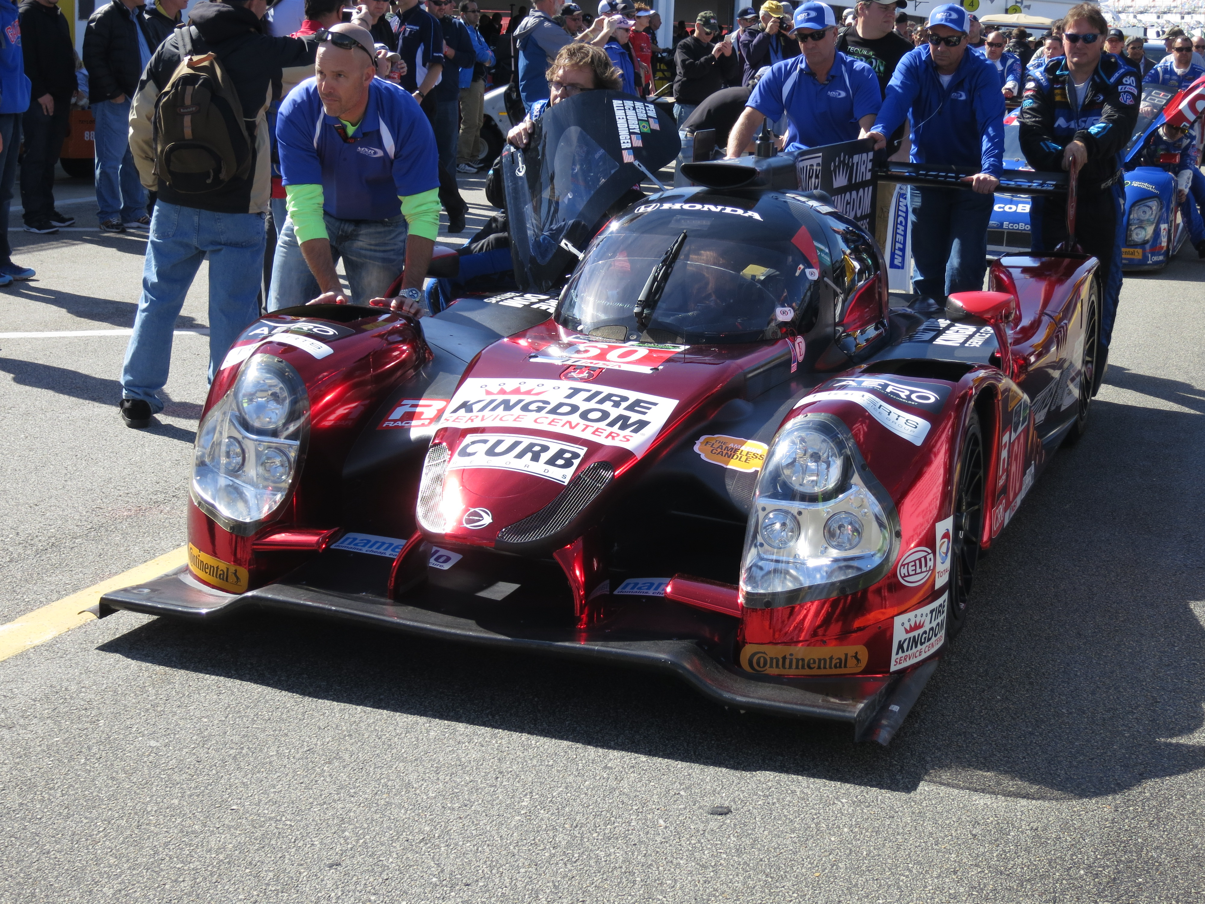 Michael Shank Racing's Ligier JS P2-Honda during the 2015 Rolex 24 at Daytona.